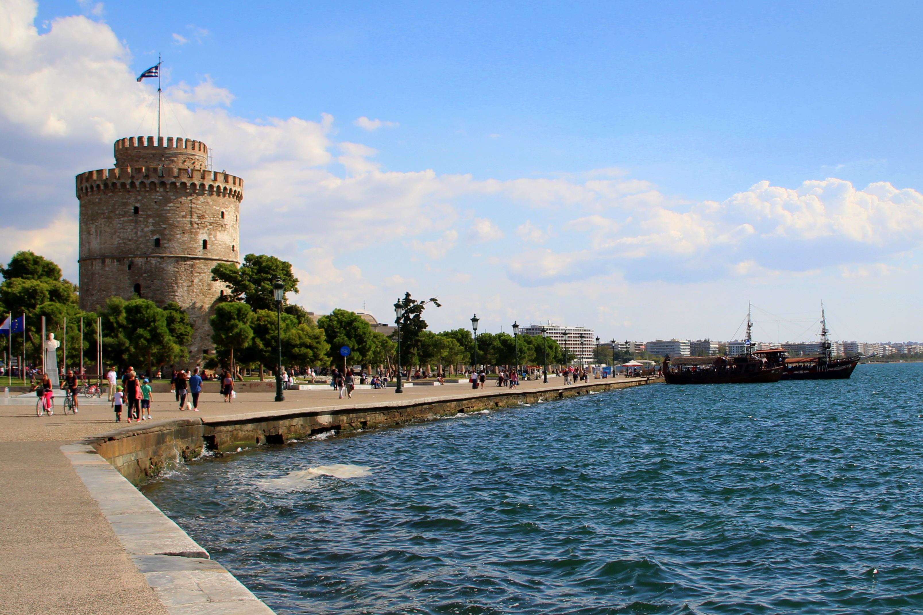 White Tower